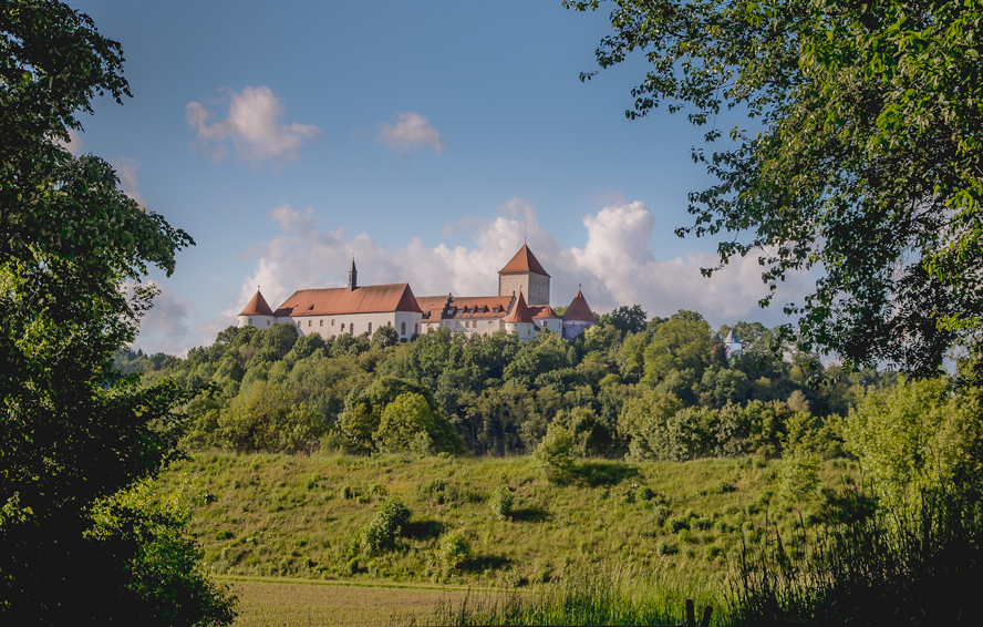 Schloss Wörth an der Donau, Blick von Südosten